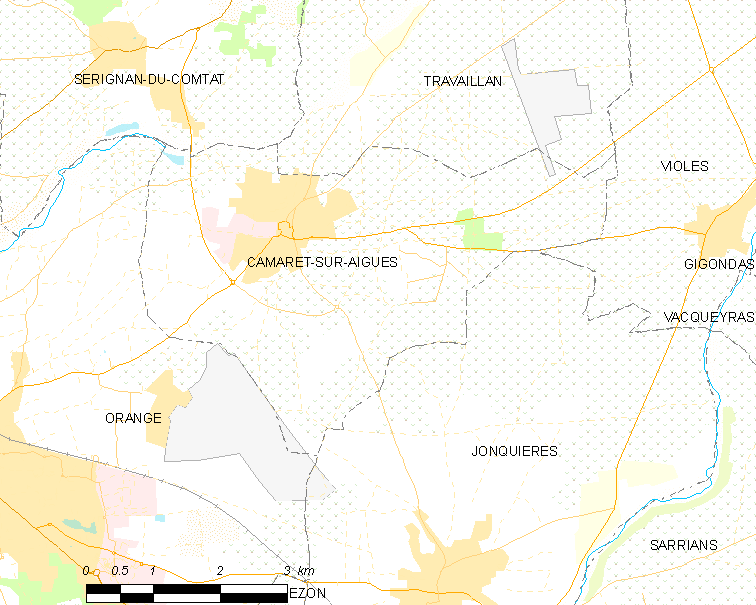 Map of French municipality Camaret-sur-Aigues